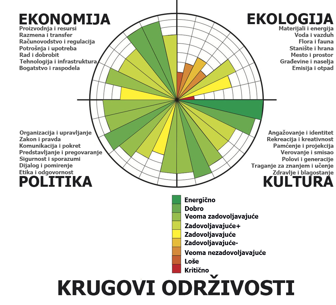 The Melbourne, Australia 2011 Circle of Sustainability, with labels in Croatian